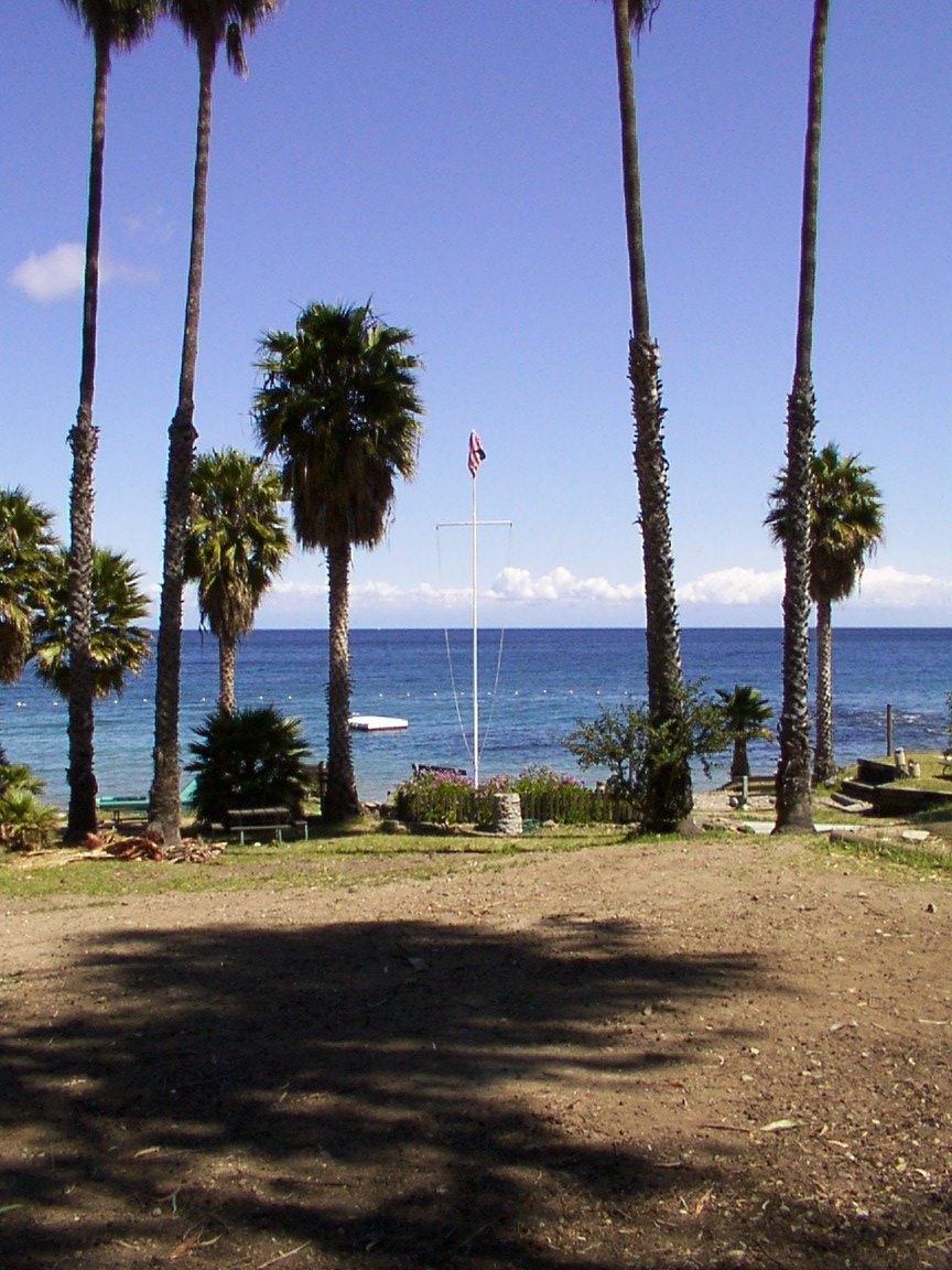 Campus by the Sea